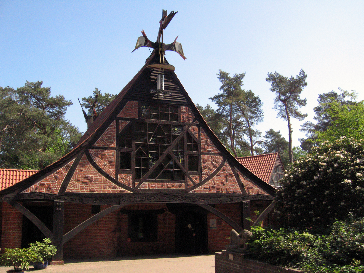 The ”Kaffee Worpswede” in Worpswede, Germany.